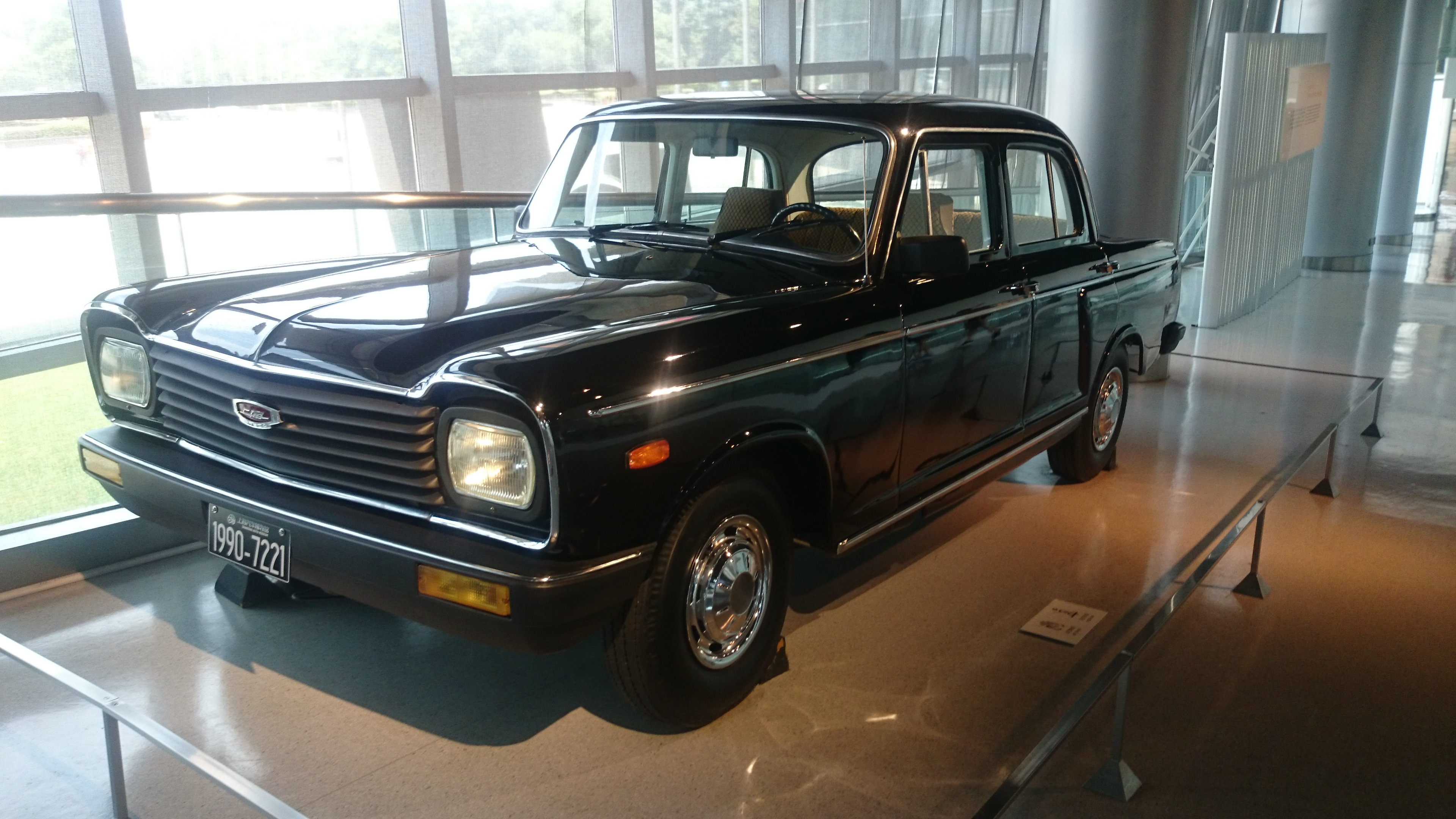 1990 Shanghai SH7221 Sedan. Its taillight, steering wheel, front and rear bumper are the same of Shanghai-VW Santana's.